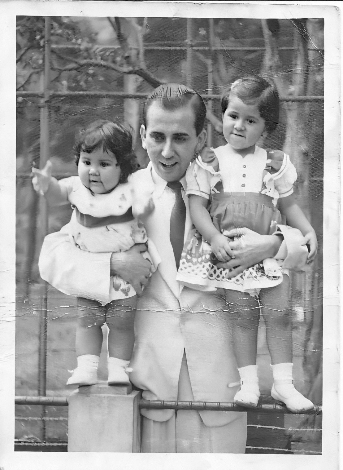 Carlos Andrés Pérez and his daughters.